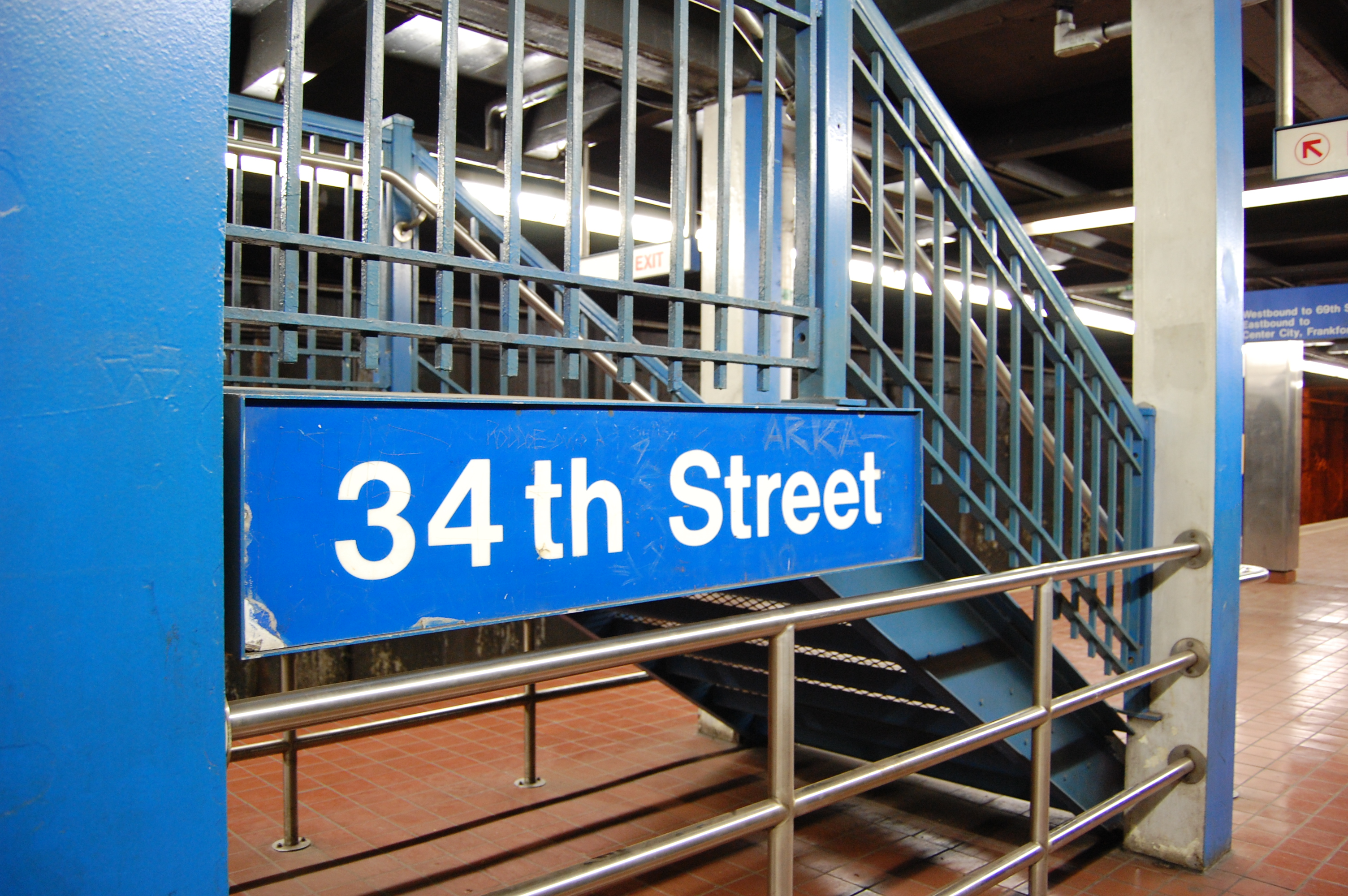 34th Street Station Platform Sign